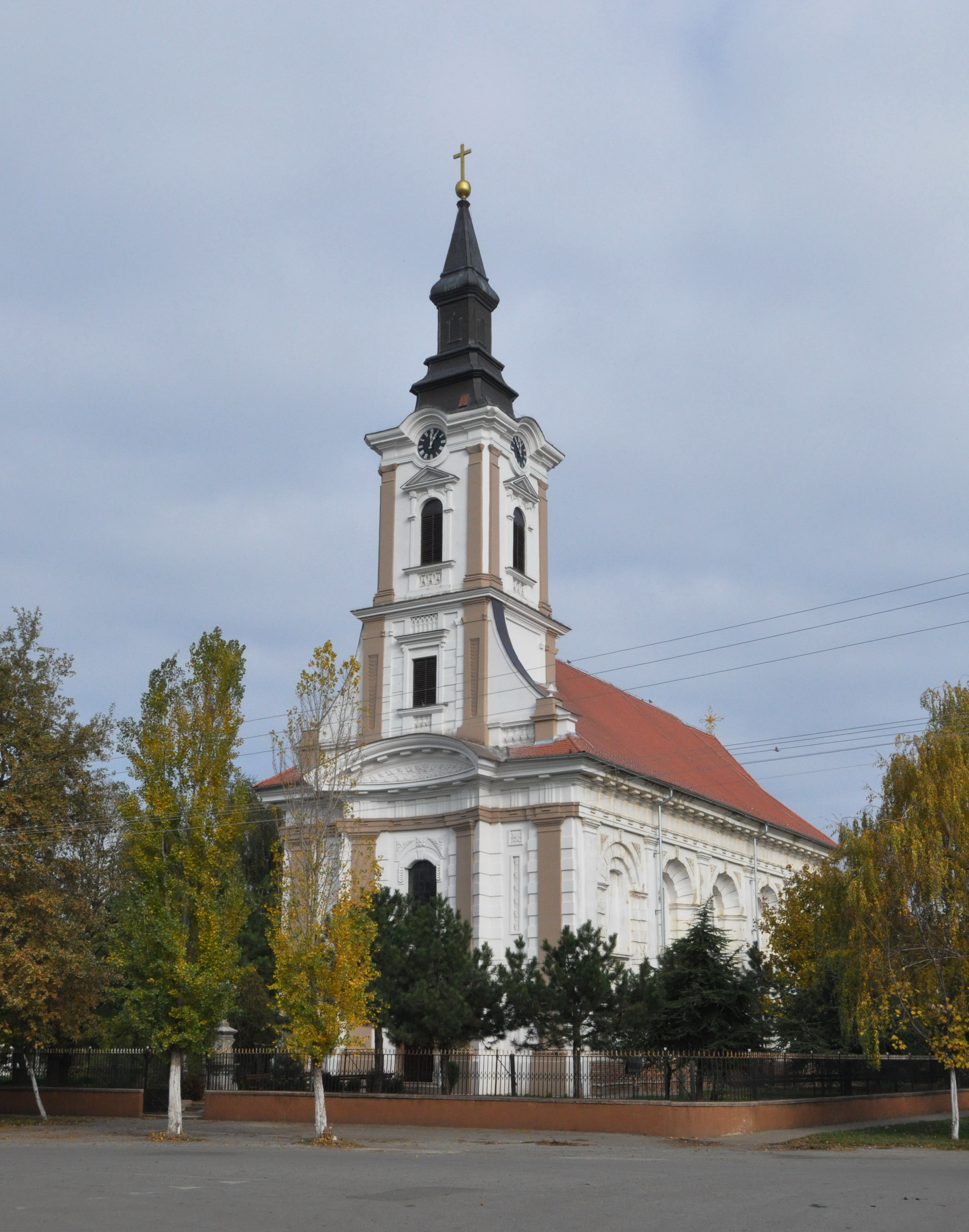 Serbian Orthodox church in Kumane